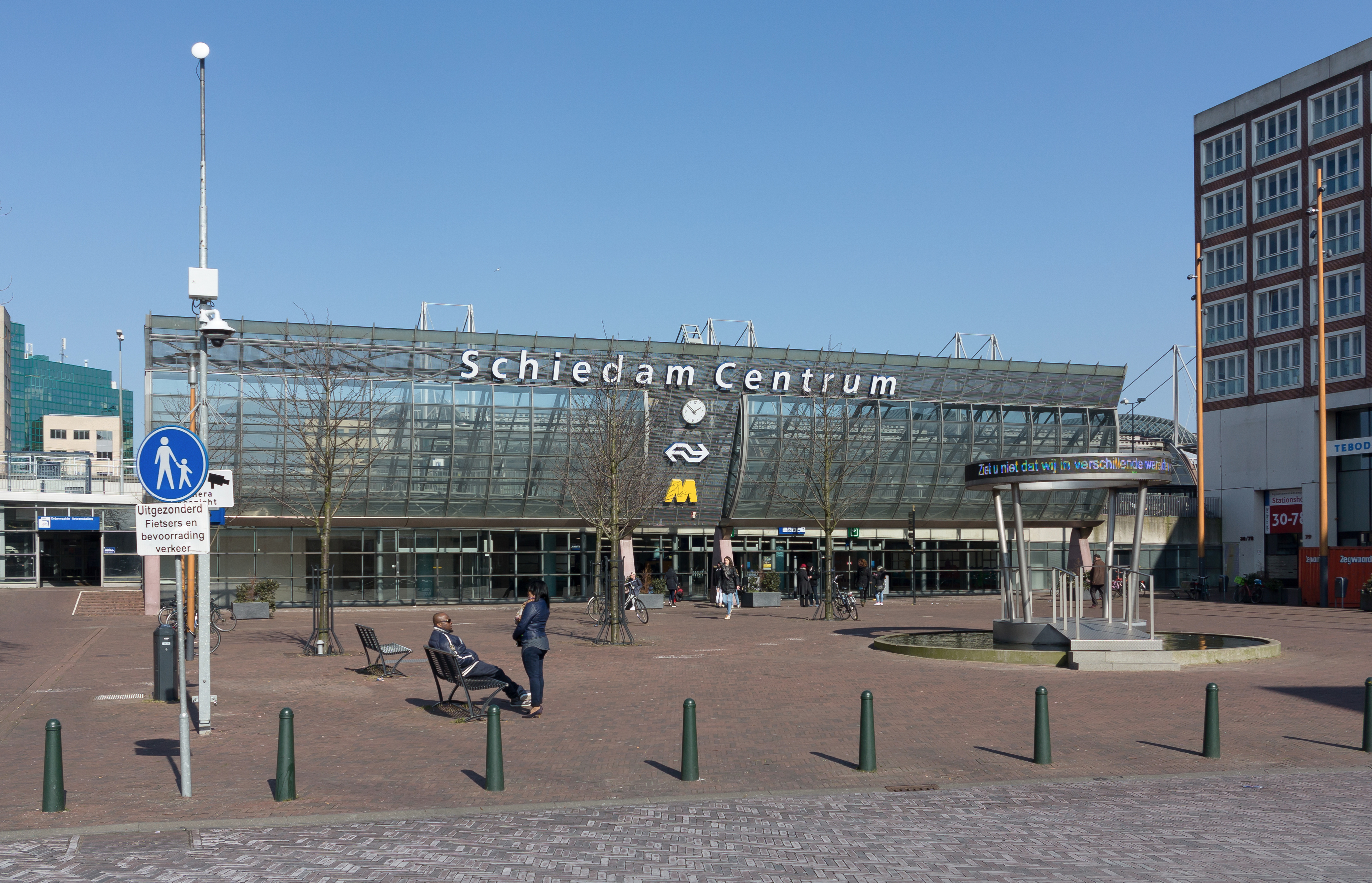 Schiedam, the Netherlands. Railway station Schiedam Centrum.